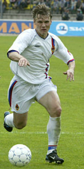 Andrei Solomatin in action for PFC CSKA Moscow